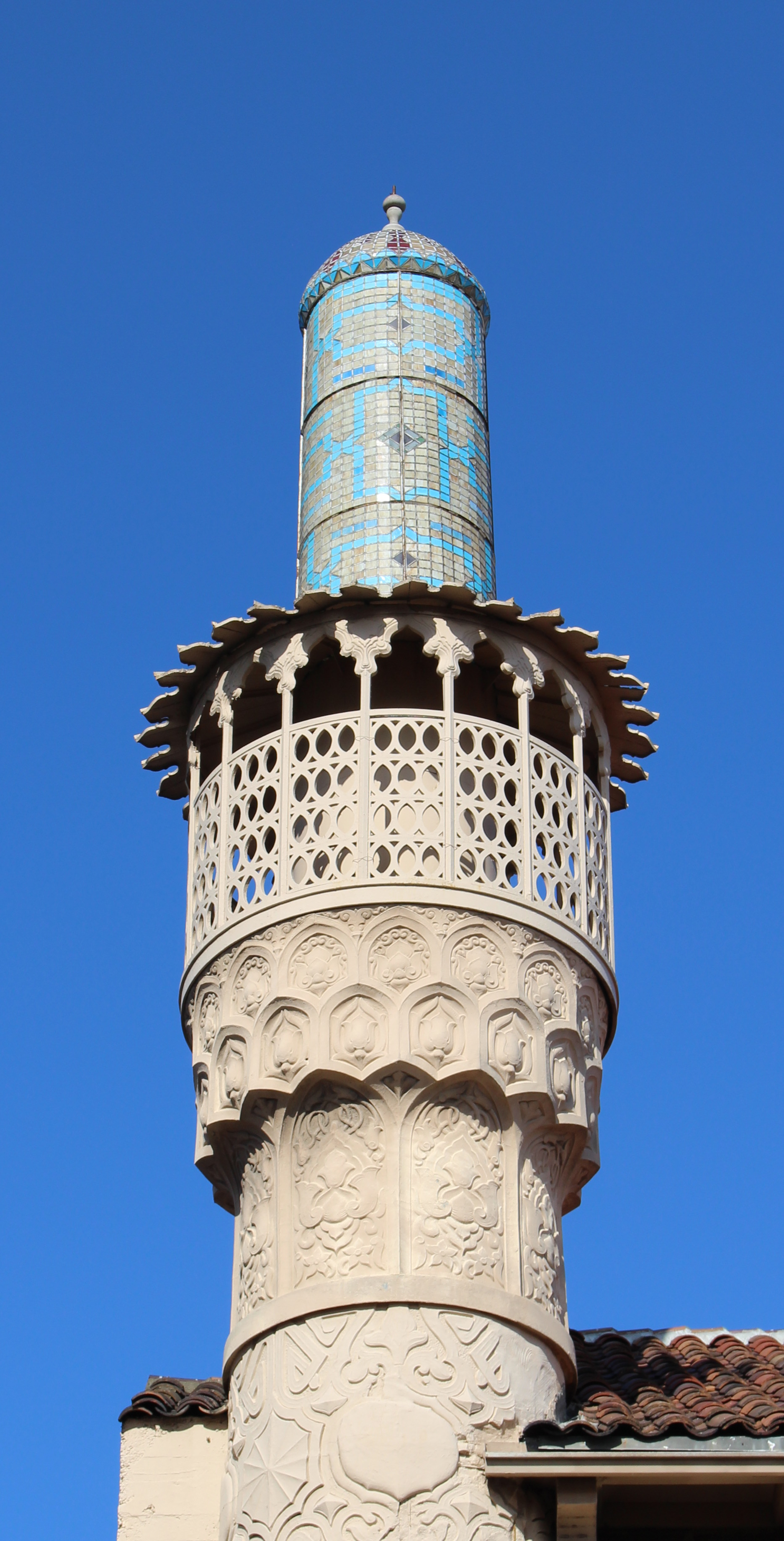 Alhambra Theatre on Polk Street in San Francisco, USA (a former cinema, opened in 1926, that is an example of Moorish Revival architecture). San Francisco designated landmark #217